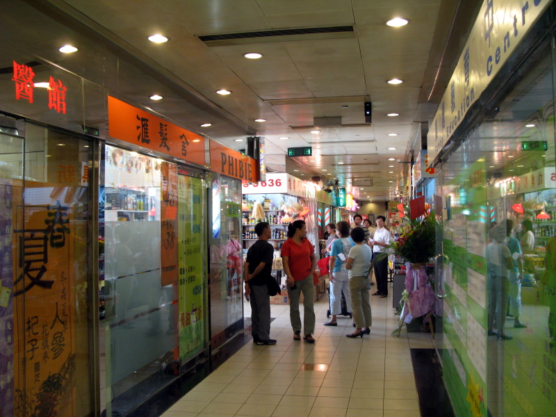 Kingswood Richly Plaza inside